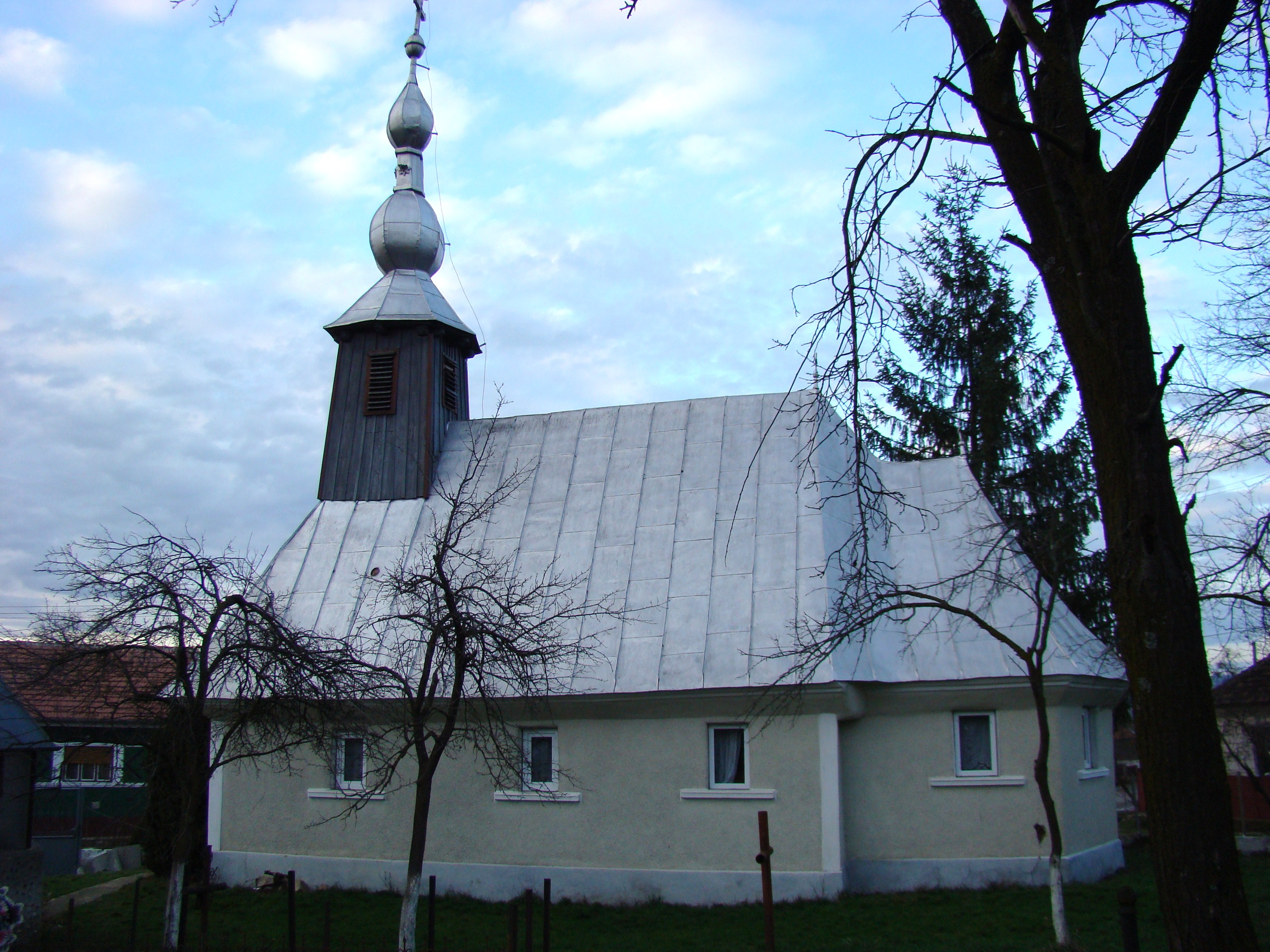 Rotărești, Bihor county, Romania: the wooden church